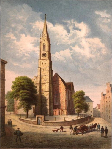 St Stephani, Bremen, at about 1870, still as a hall church, already with Gothic revival spire